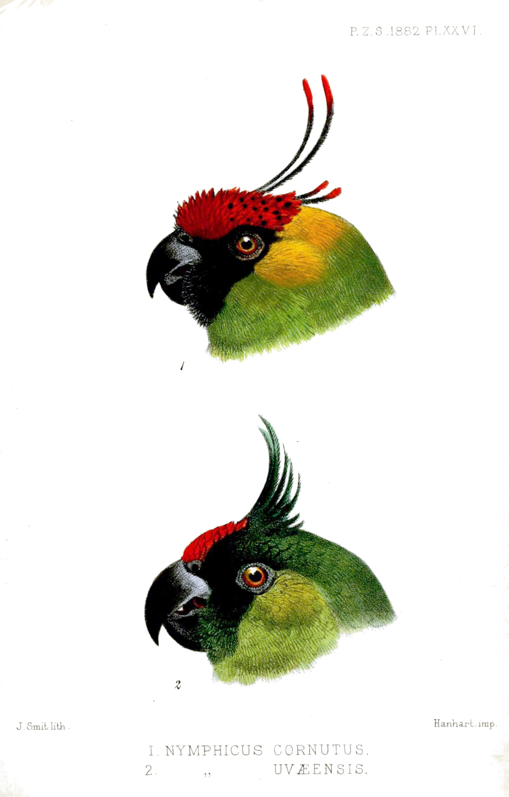 Horned Parakeet, Nymphicus cornutus (above) and Uvea Parakeet, Nymphicus uvaensis (below).